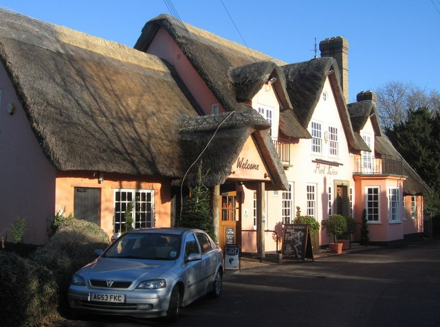 The Red Lion The larger of two pubs close together in the village centre. This pub is very child friendly but the interior does not quite match the exterior for character. Just beyond the pub is the path along the River Cam into Cambridge. Like all pubs in the village it can get very busy in the summer months.